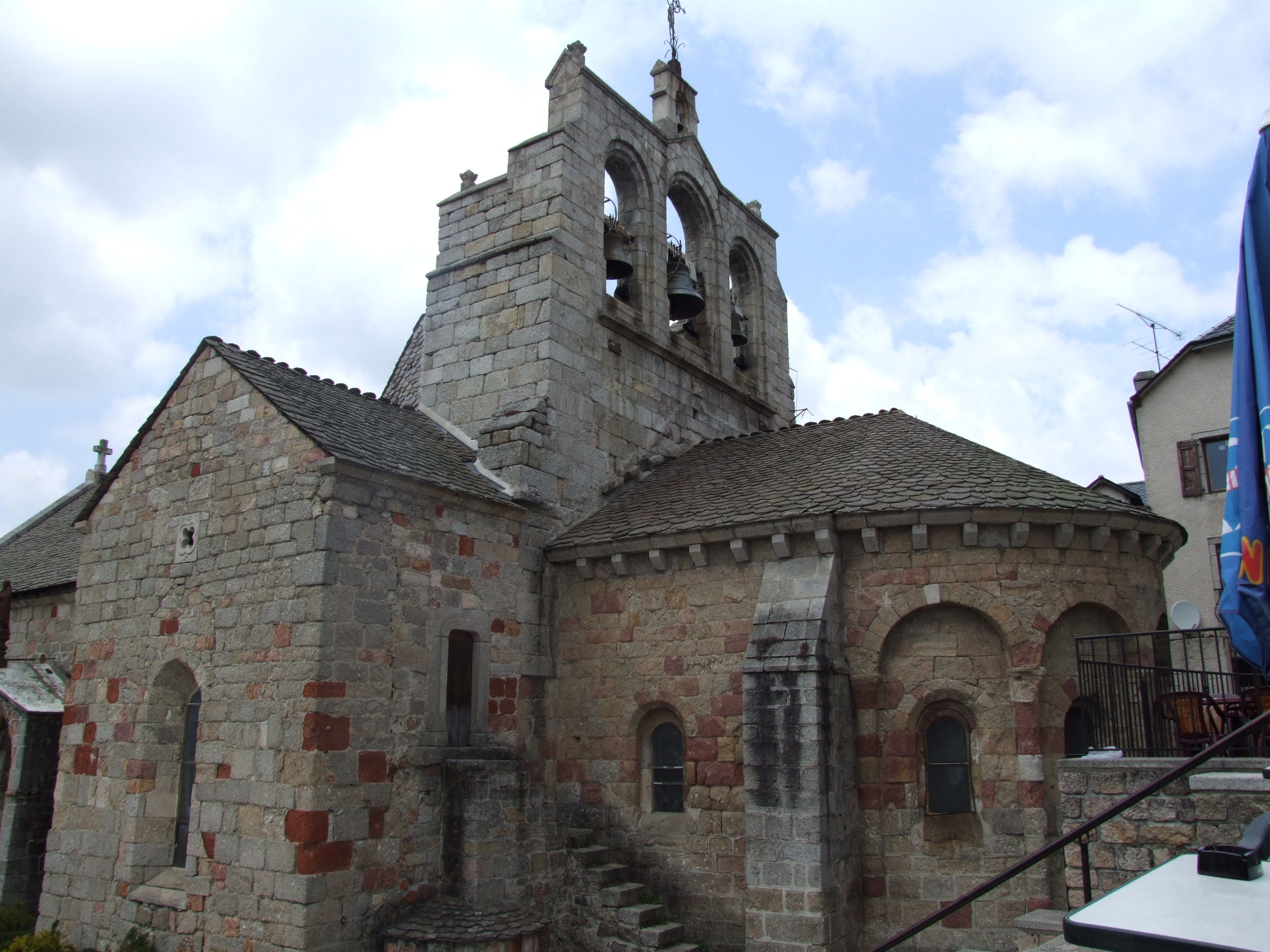 Church of St.-Alban-sur-Limagnol